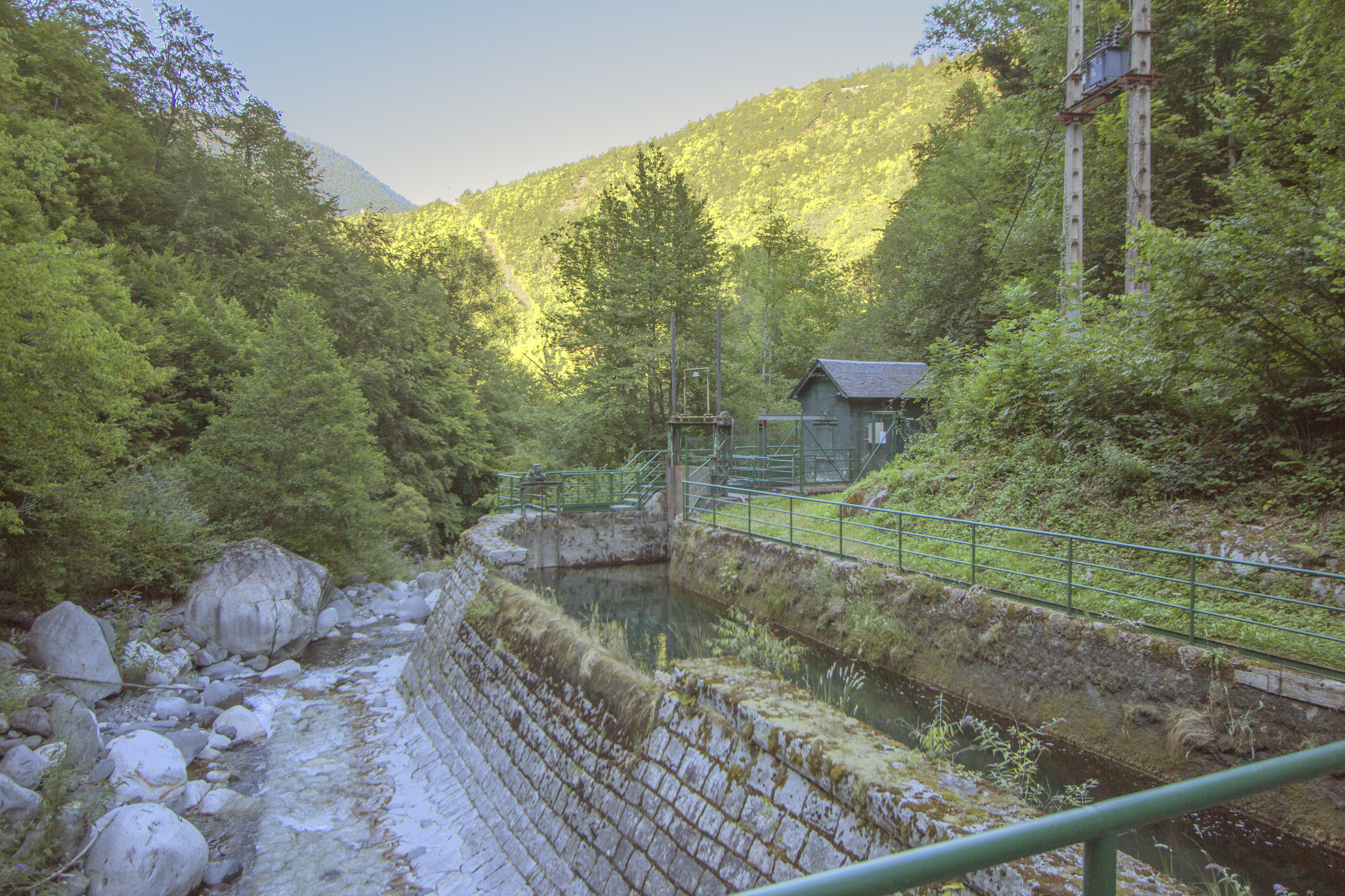 Small dam at the lower Jueu river, Benós hydroelèctric power plant (Catalan Pyrenees)